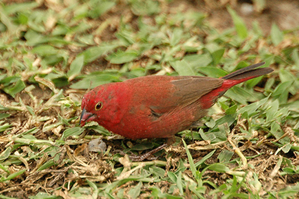 Uganda Red-billed Firefinch (Lagonosticta senegala) Queen Elizabeth NP, W. Uganda